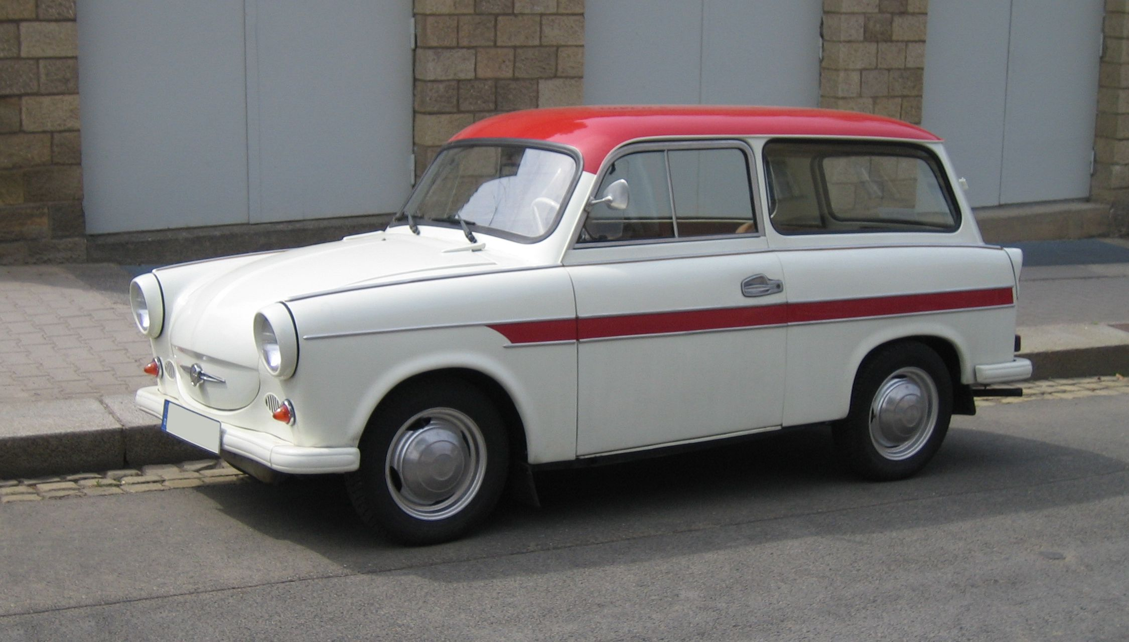 Trabant 600 station wagon (side view)